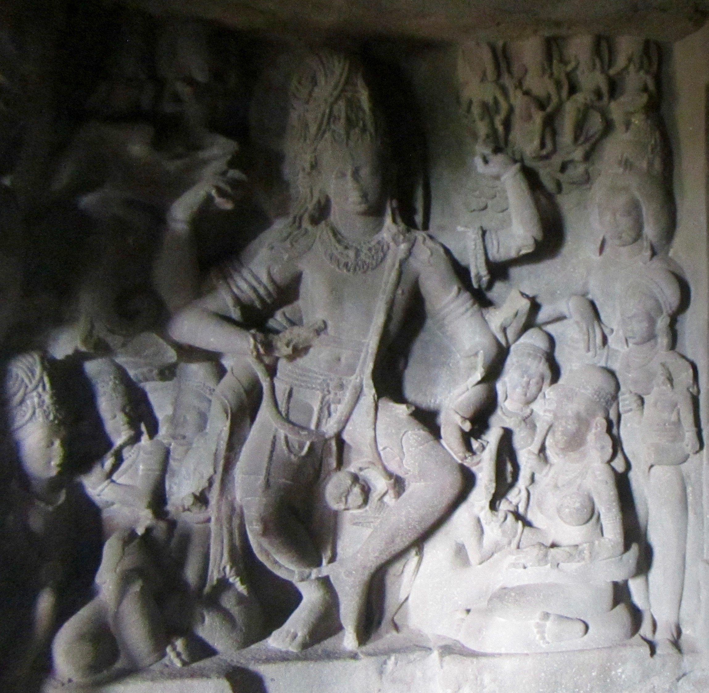 Ellora caves, Hindu Hinduism